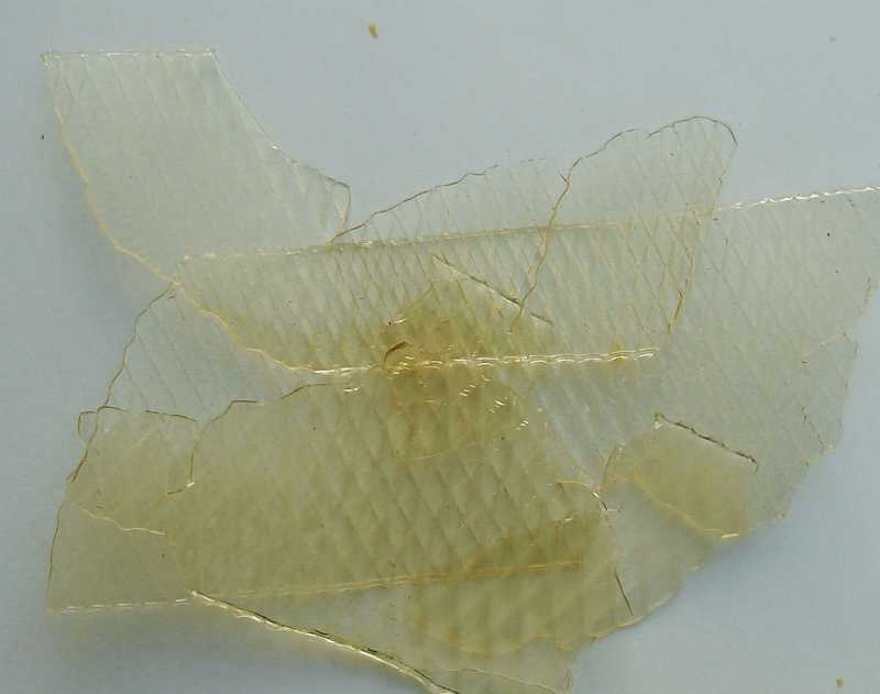 isinglass, used for the formulation of tempera paints.